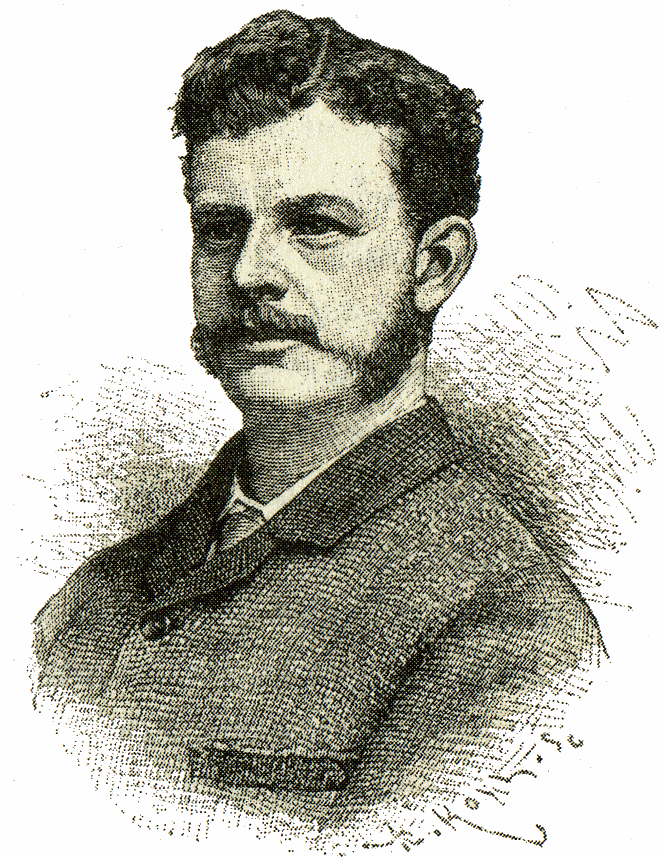 Charles Maries (1851 – 1902)